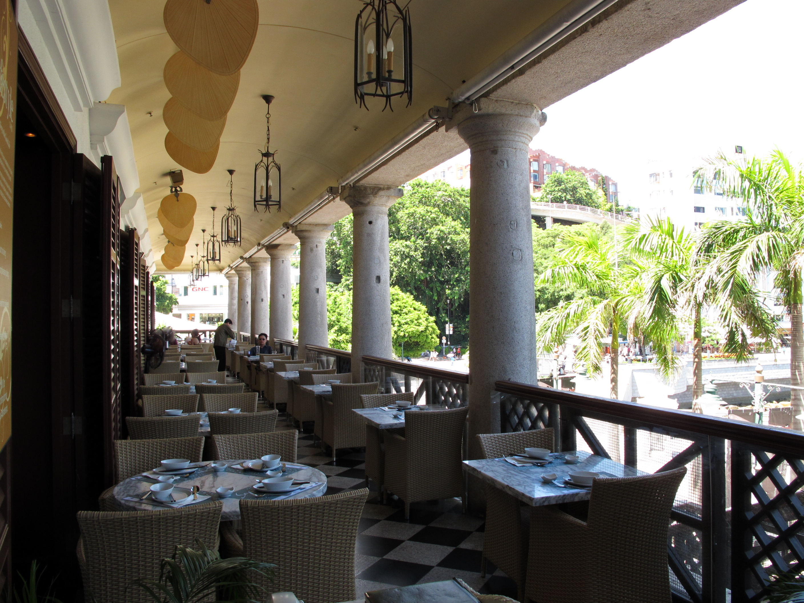 Murray Building Level1 Outside View 美利樓